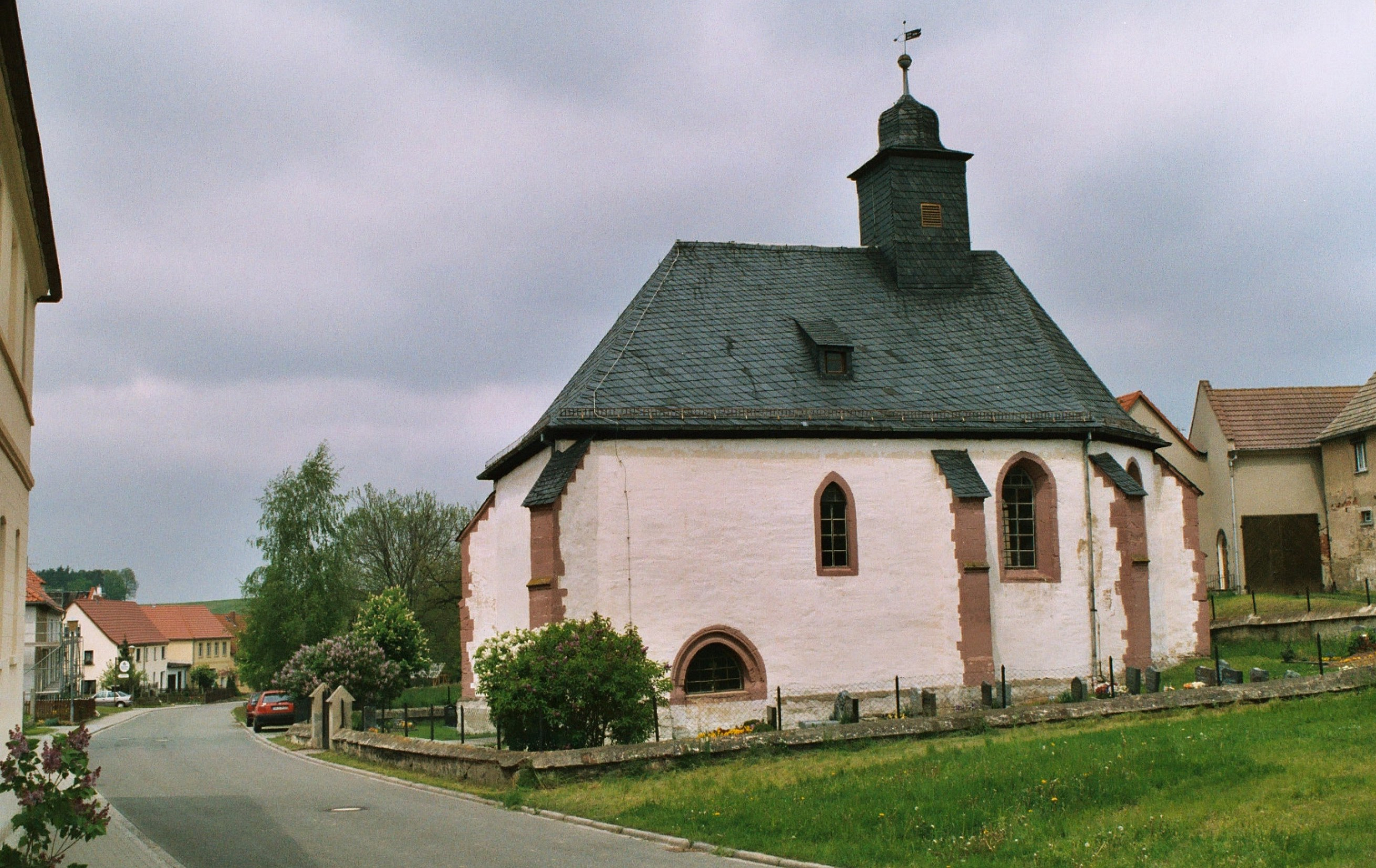 Kleinbocka, the village church